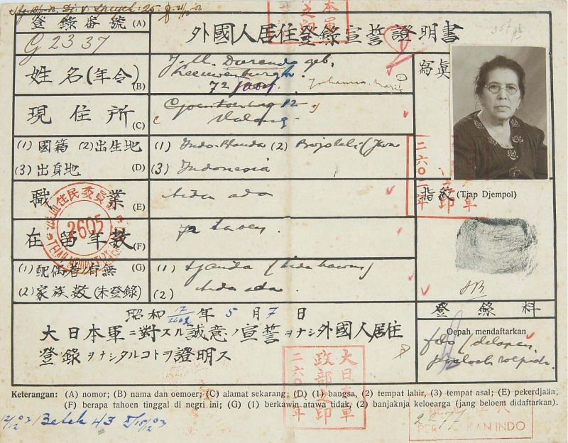 Double-sided card printed and handwritten in Japanese and Indonesian, in the name of Johanna Maria Durand, born Leeuwenburgh, 72, Gunturweg 12, Malang, Includes photo, thumbprint and Japanese government stamps. Japanese Indonesian identity card in the name of JM Durand Leeuwenburgh